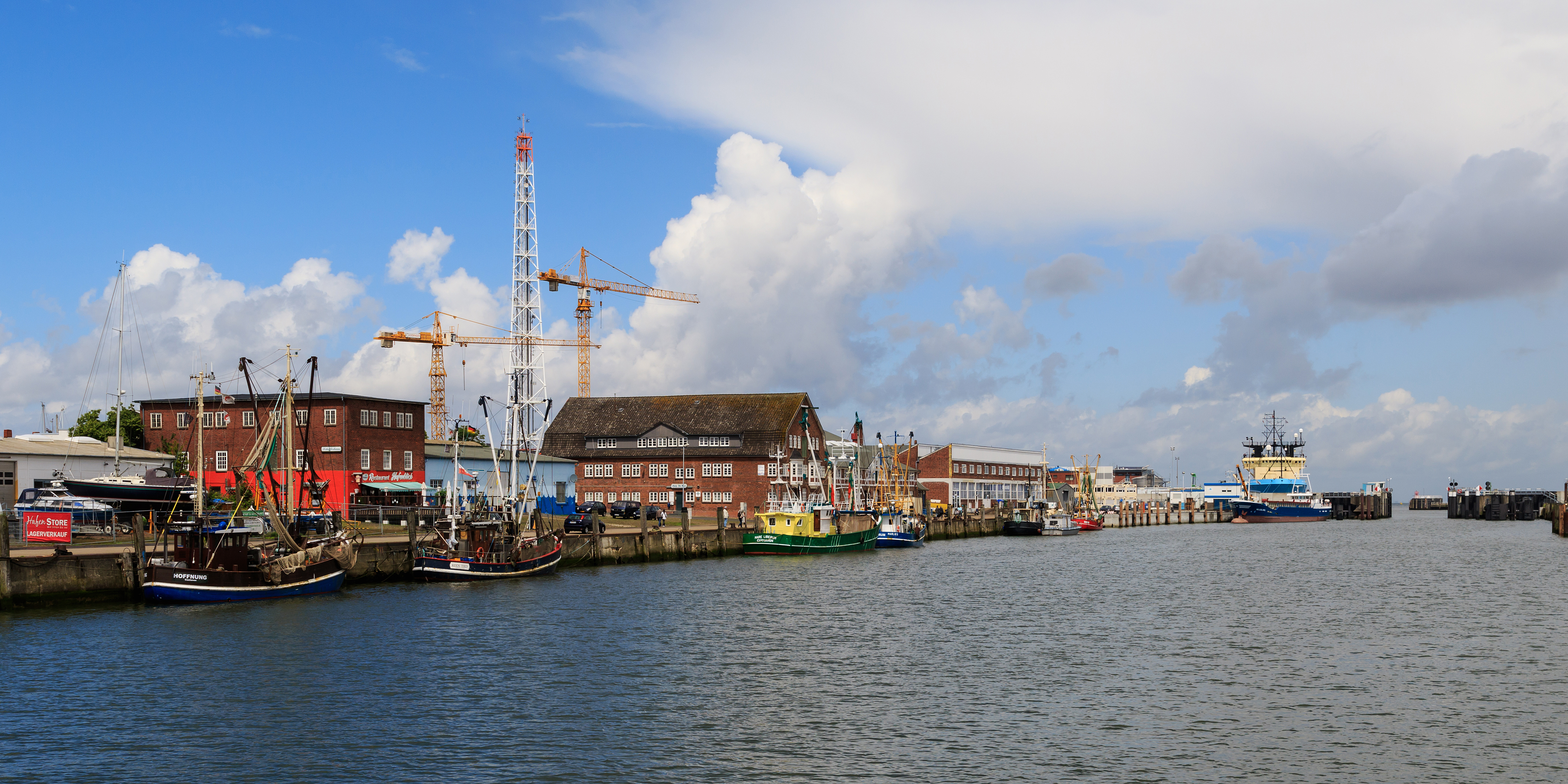 Sea port and its surroundings in Cuxhaven, Germany